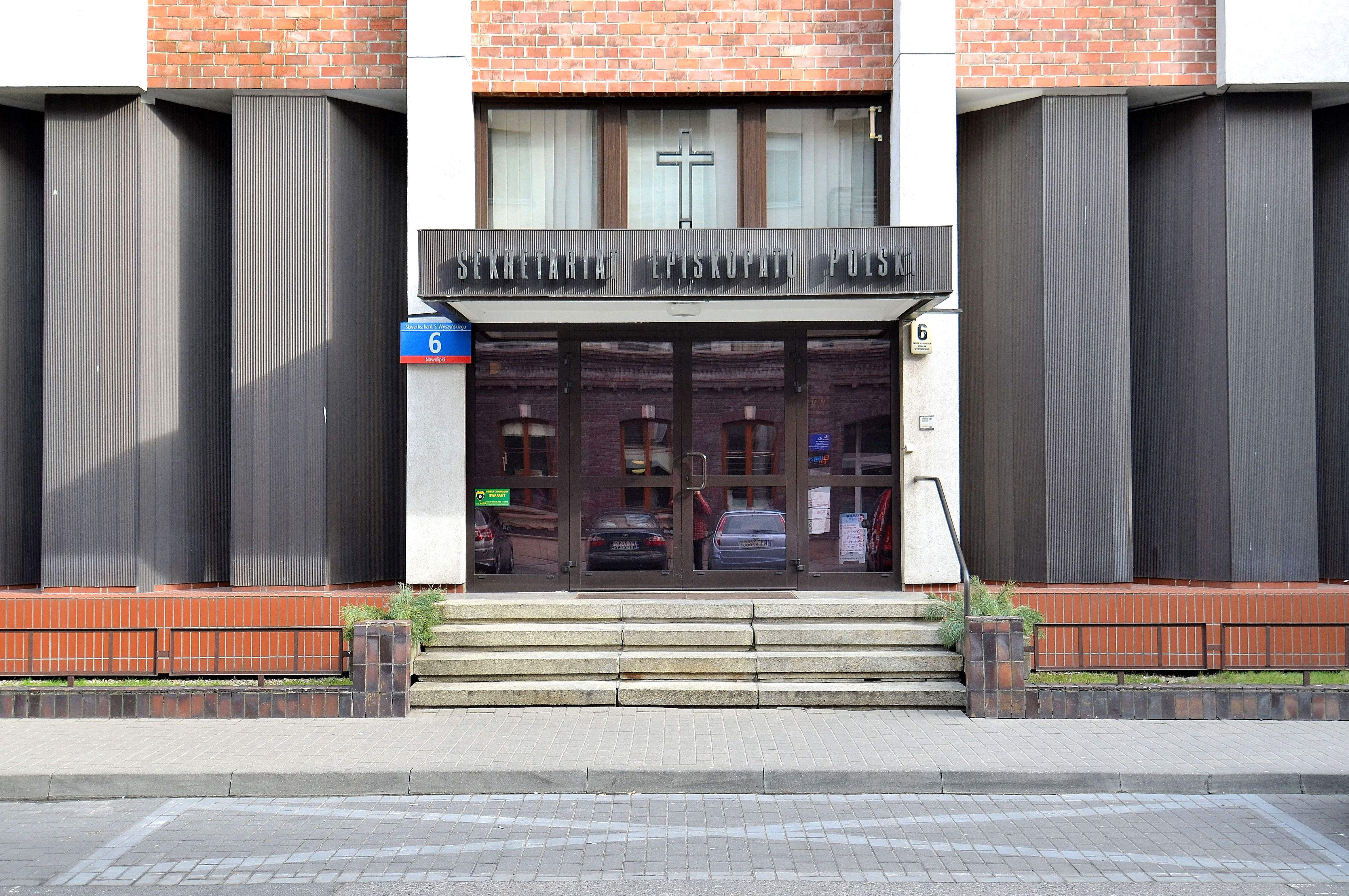 Secretariat of Polish Episcopal Conference at 6 Stefan Wyszyński Square in Warsaw